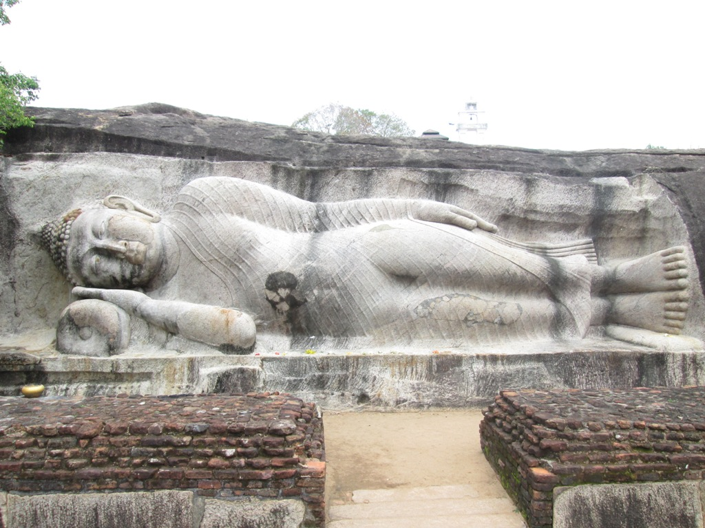 The reclining statue of the Buddha at Tantirimale that was engraved on rock is about 45ft. in length. The Buddha who was reclining slanted right side keeping. The head of the statue on the place of his right hand turners to the right side in the sleeping poster. The drapery is in this material and shown as clinging is the body. The archaeological Department has conserved this Buddha statue of in the head and face had been damaged. (8-9 centuries AD)